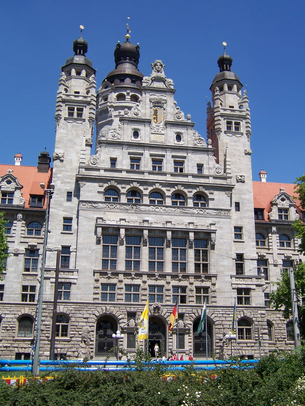 main (southern) entrance of the Neues Rathaus (New Town Hall) in Leipzig, Saxony (Germany)